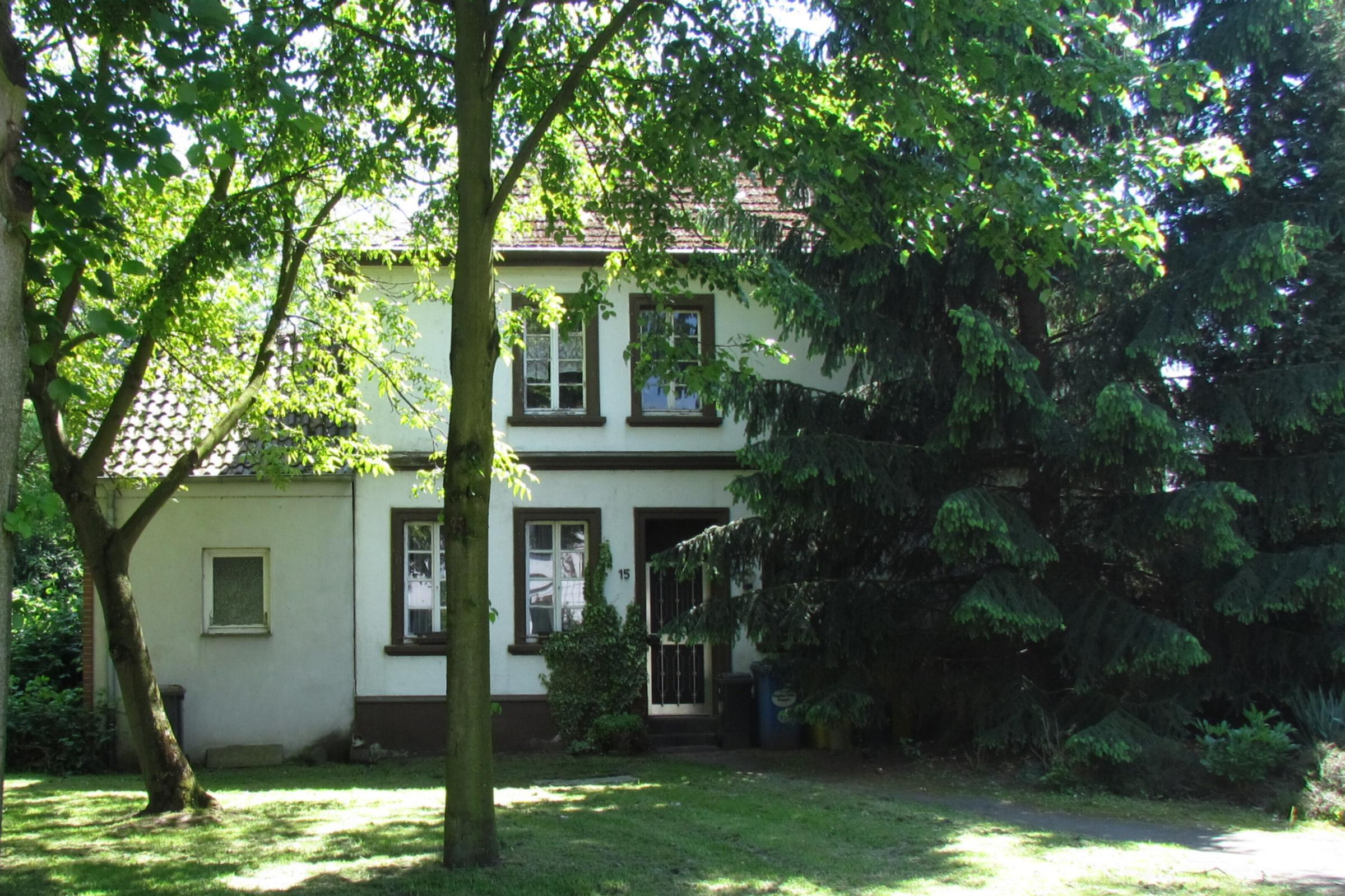 This is a photograph of an architectural monument.It is on the list of cultural monuments of Korschenbroich